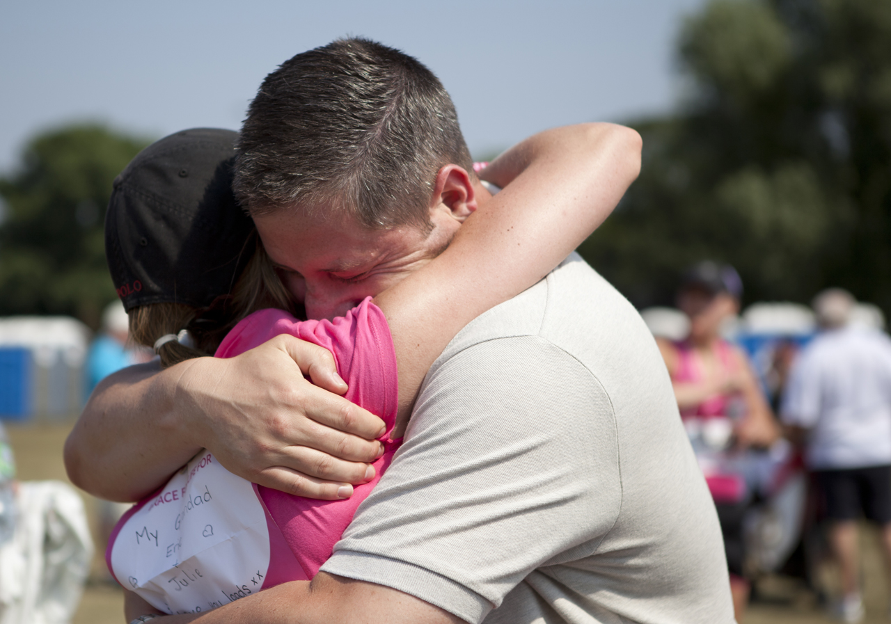 Cancer Research UK This image has been released as part of an open knowledge project by Cancer Research UK. If re-used, attribute to Cancer Research UK / Wikimedia Commons This work is free and may be used by anyone for any purpose. If you wish to use this content, you do not need to request permission as long as you follow any licensing requirements mentioned on this page.